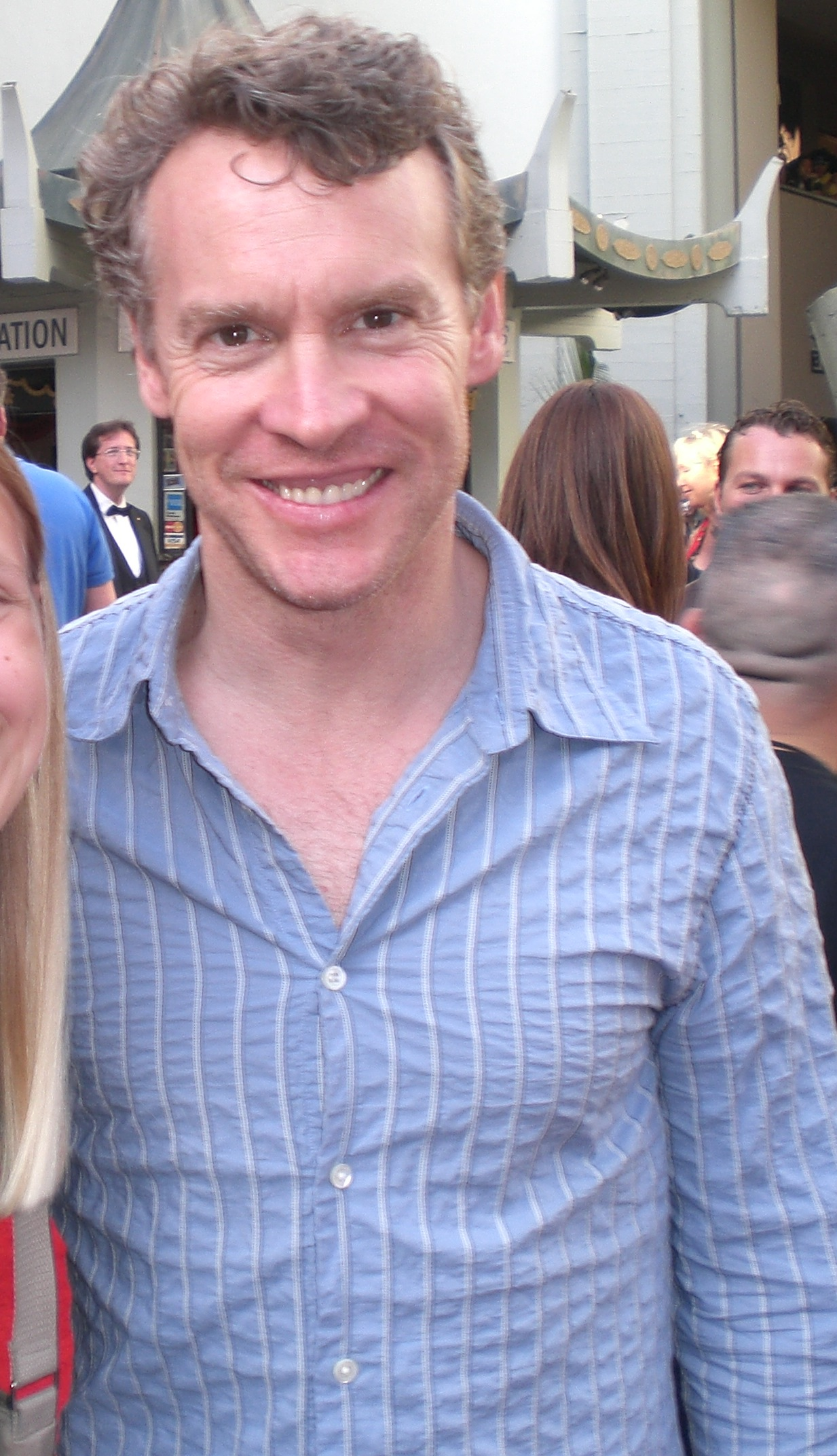 Me and Tate Donovan